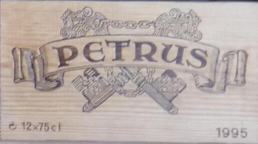 Wine boxes featuring the label of several premier French cult wines including the Left Bank Bordeaux wines of Lafite Rothschild and Mouton Rothschild; the Right bank wines of Ausone, Petrus and Cheval Blanc and the Burgundy Grand Cru Domaine Romanee Conti.